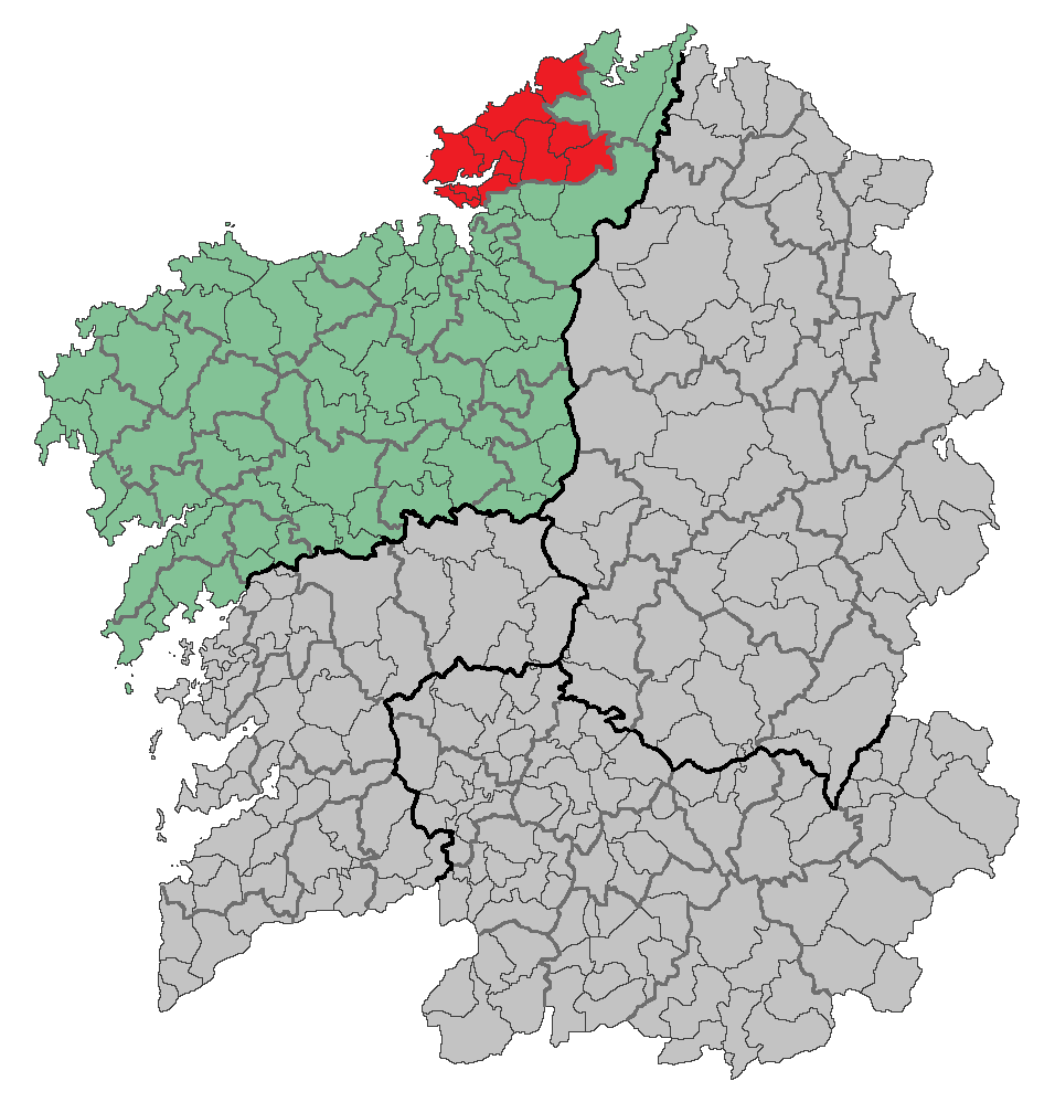 Region of Galicia (Spain) Based in: Image:Location of El Ferrol.png Source: Designed by Leoplus. Original picture, designed by Caiser over a work made by Alyssalover.